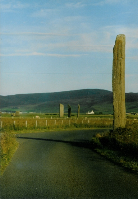 Watch Stone, Stenness The Watch Stone is one of a stone row linking the Stones of Stenness (pictured) with the Ring of Brodgar. It stands at the edge of the causeway linking the two.